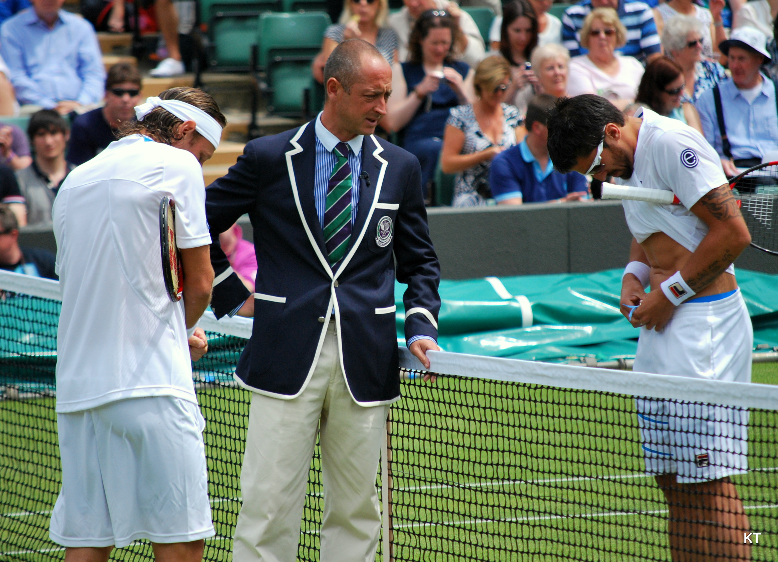 David Nalbandian & Janko Tipsarevic with umpire Pascal Maria at the start of their match on Day 1 of Wimbledon 2012.